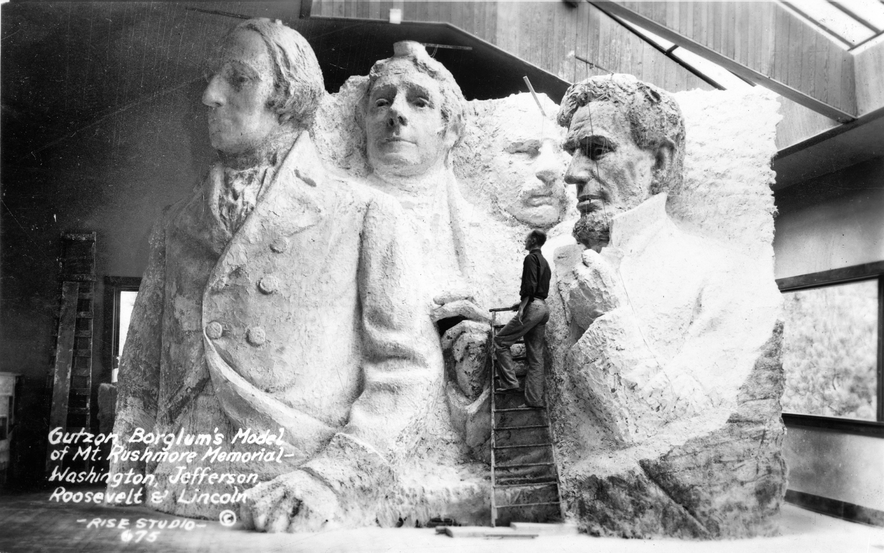 Gutzon Borglum's model of Mt. Rushmore memorial